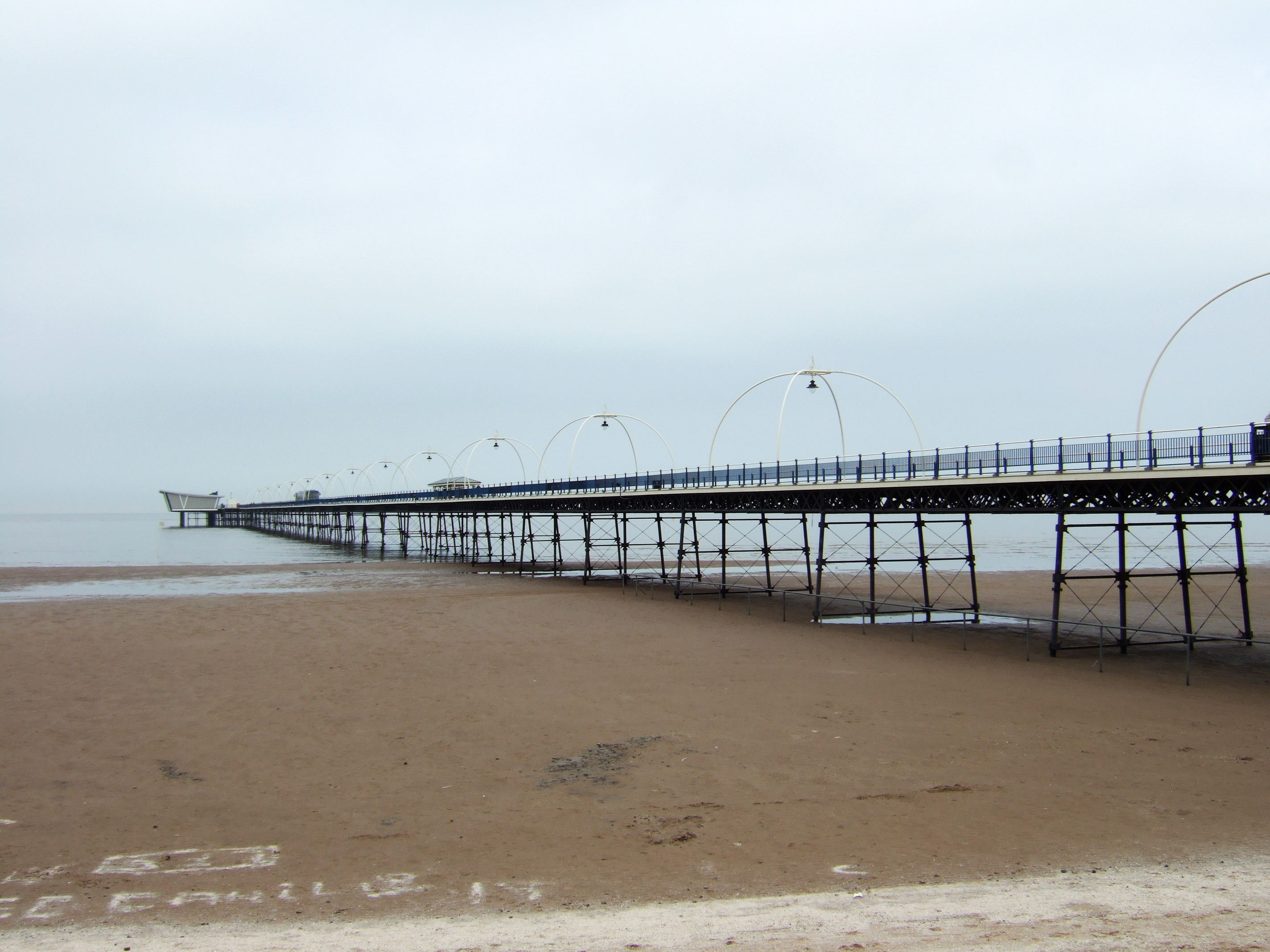 Southport Pier, the second longest pier in Great Britain, in Southport, Merseyside, England.